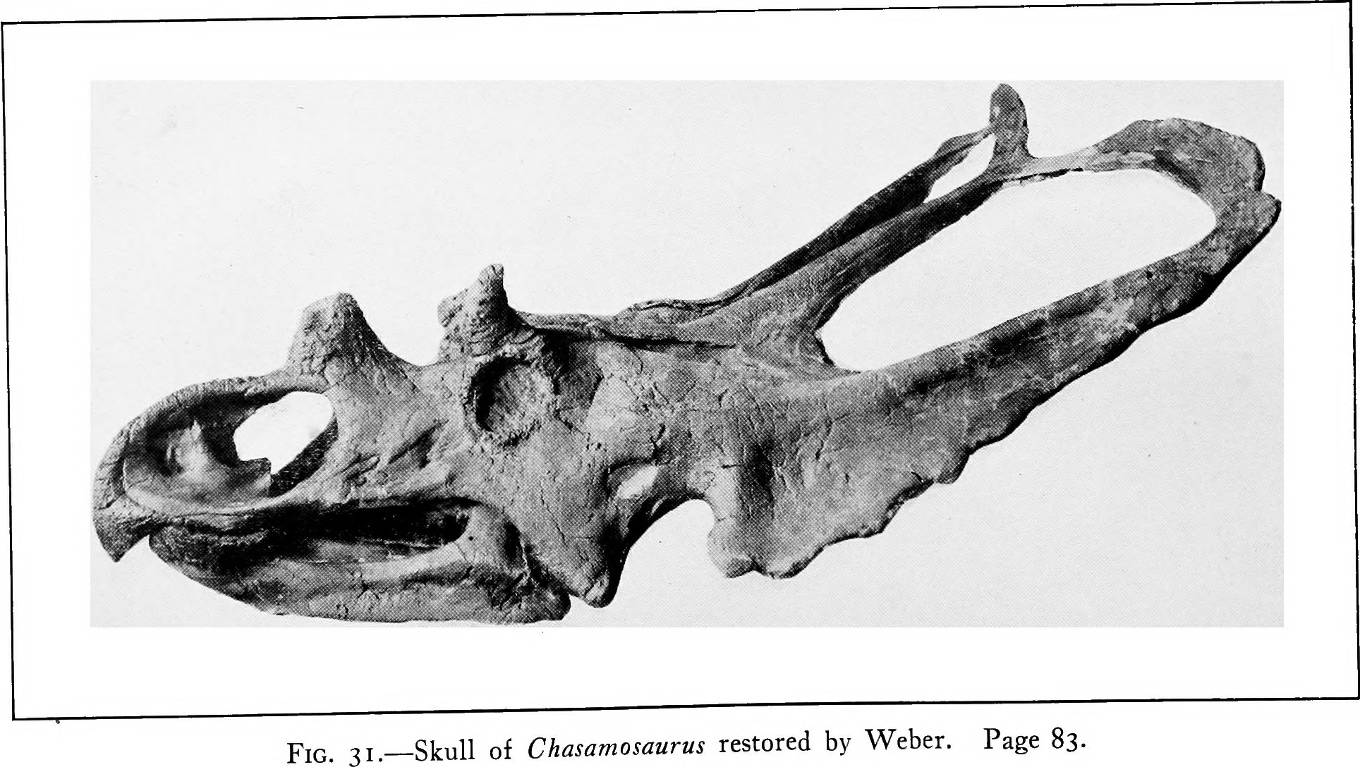 Title: Hunting dinosaurs in the bad lands of the Red Deer River, Alberta, Canada; a sequel to The life of a fossil hunter Year: 1917 (1910s) Authors: Sternberg, Charles H. (Charles Hazelius), b. 1850 Subjects: Paleontology; Dinosaurs Publisher: Lawrence, Kan. , C. H. Sternberg Text Appearing Before Image: ' Text Appearing After Image: '